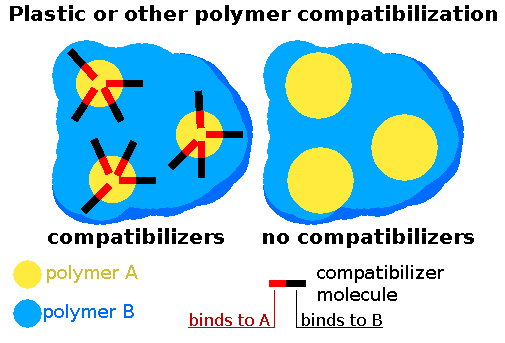 Plastic or other polymer compatibilization.